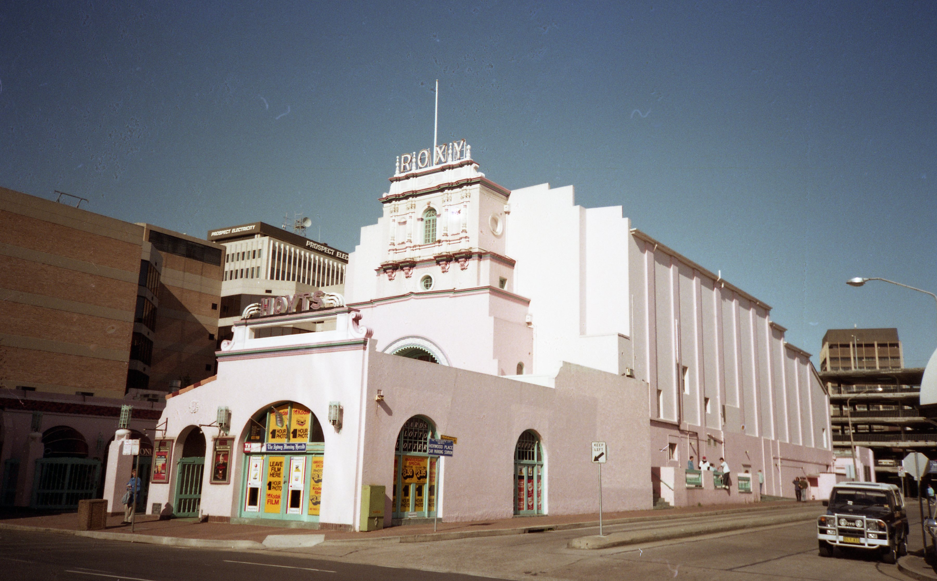 Hoyts Roxy Theatre, Parramatta. Taken on Kodak film on 13 June 1993.